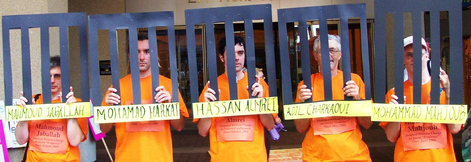 Christian Peacemaker Teams protesting at 277 Front Street, CSIS' Toronto Headquarters